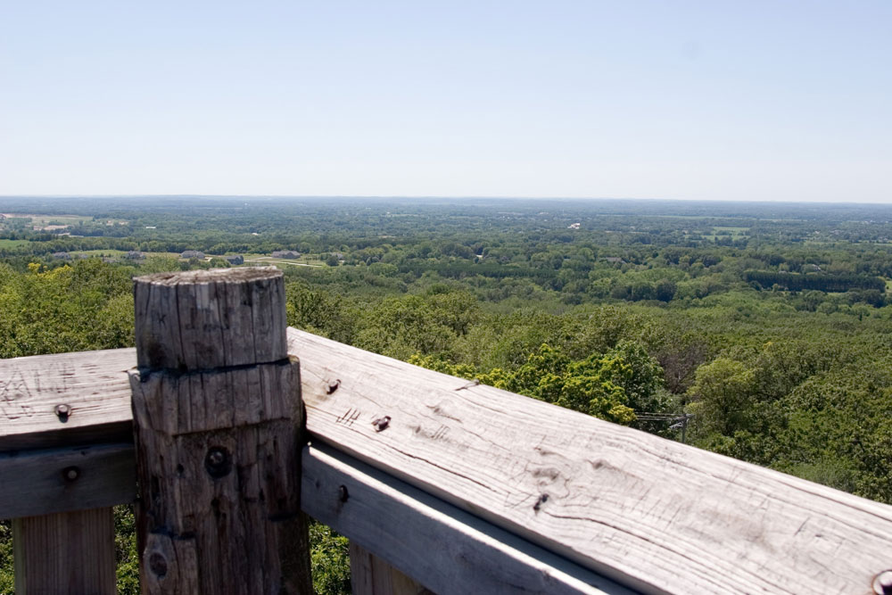 View from Lapham Peak. Lapham Peak is located in Wisconsin (Waukesha County).